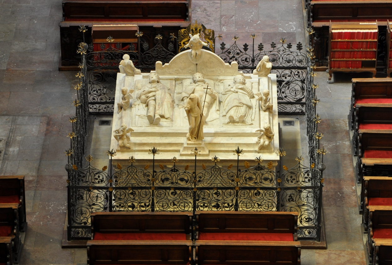 Habsburg Tomb in St. Vitus Cathedral at Prague Castle.